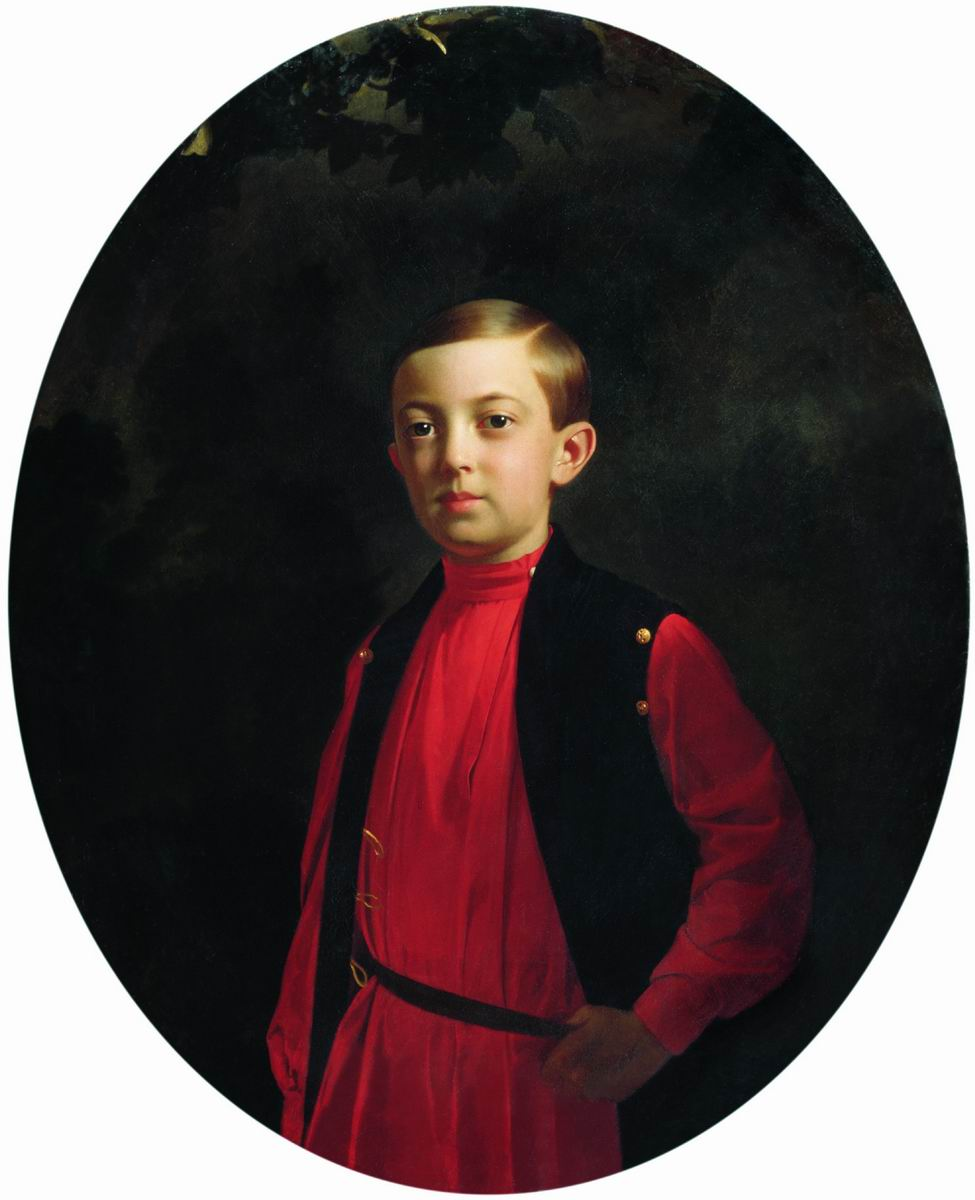 Tsarevich Nicholas Alexandrovich of Russia